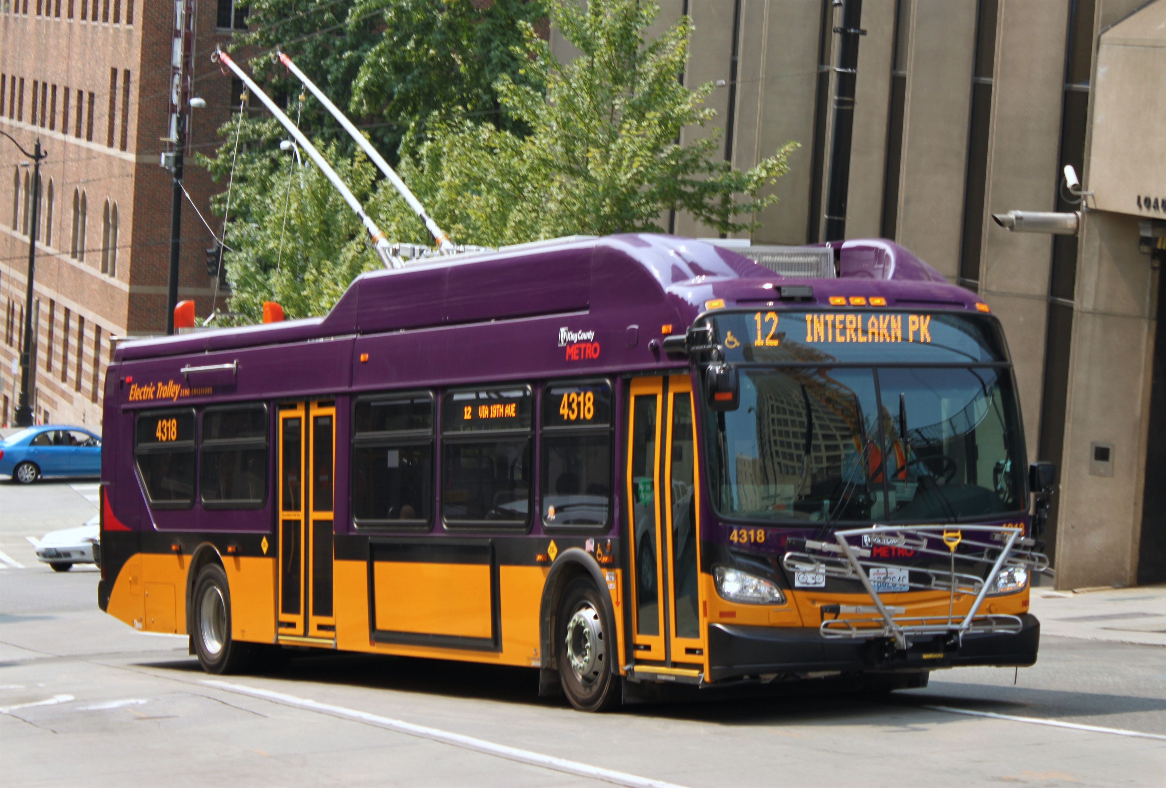 2015 New Flyer XT40 No. 4318 on King County Metro route 12, in downtown Seattle. It was one of the first of the new trolleybus fleet, which began to enter service on August 19, 2015. The specific location is on Marion Street between 4th Avenue and 5th Avenue, a steep uphill section with a 15% grade.